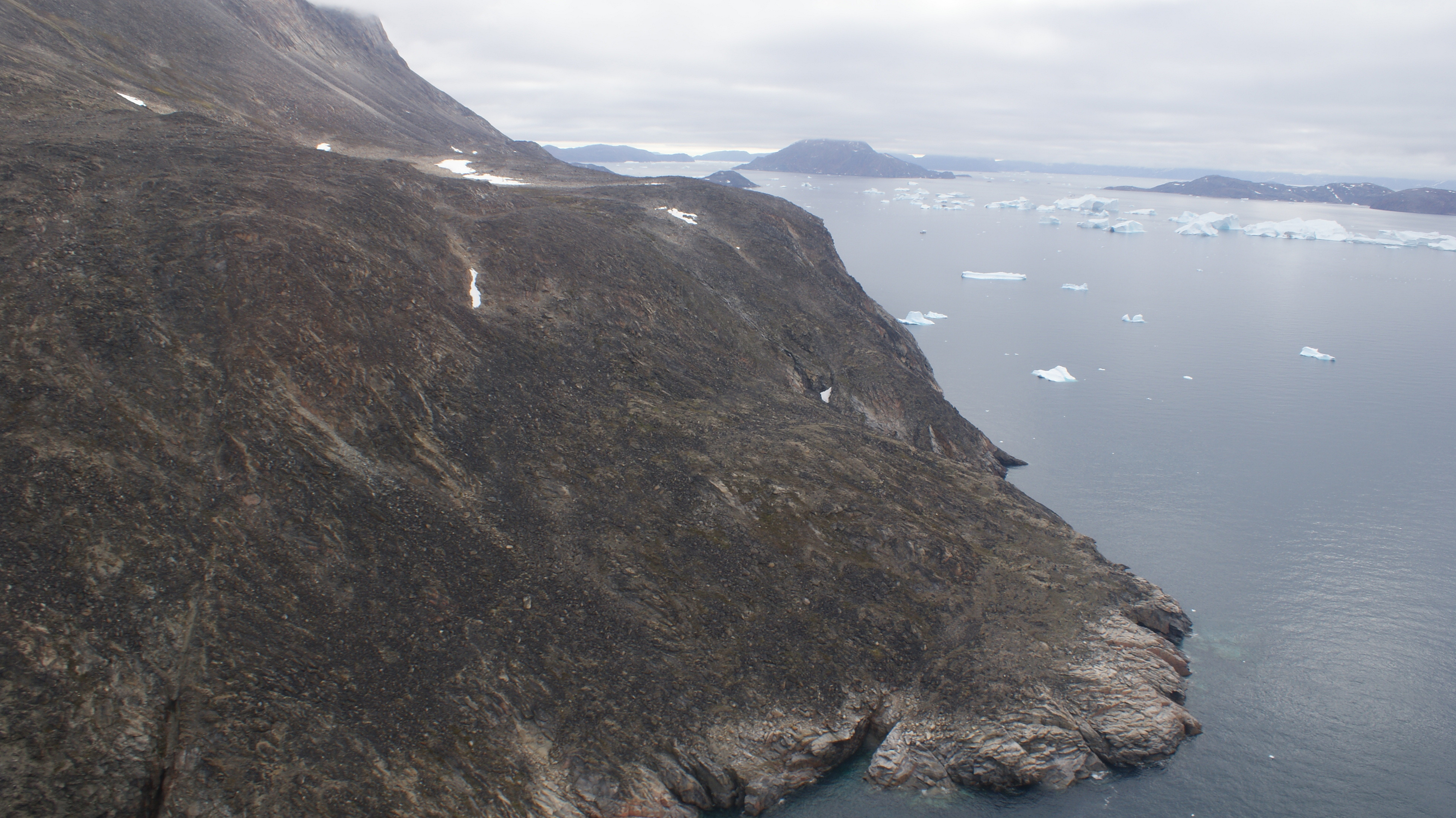 Wilcox Head, the western promontory of Kiatassuaq Island. Most commonly defined as the southern limit of Melville Bay. Photographed in poor visibility conditions from the Air Greenland Bell 212 helicopter during the Upernavik-Kullorsuaq flight.